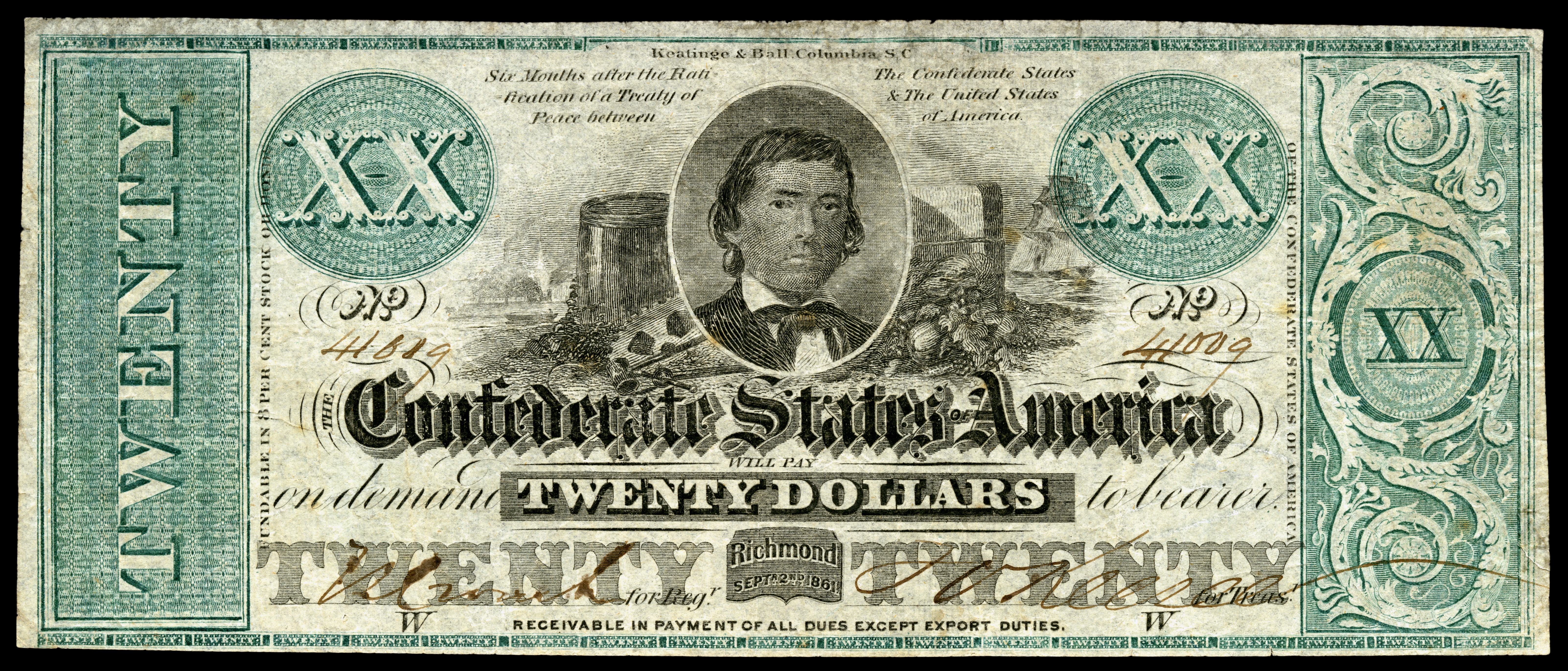 Third series $20 Confederate States of America banknote. Uniface. Portrait of Alexander H. Stephens. Third series (Act of August 19, 1861 amended December 24, 1861), funded by 8% bonds, payable six months after a ratified peace treaty, total authorized circulation $150,000,000. Between 1861–64 there were 72 different types issued with numerous varieties.